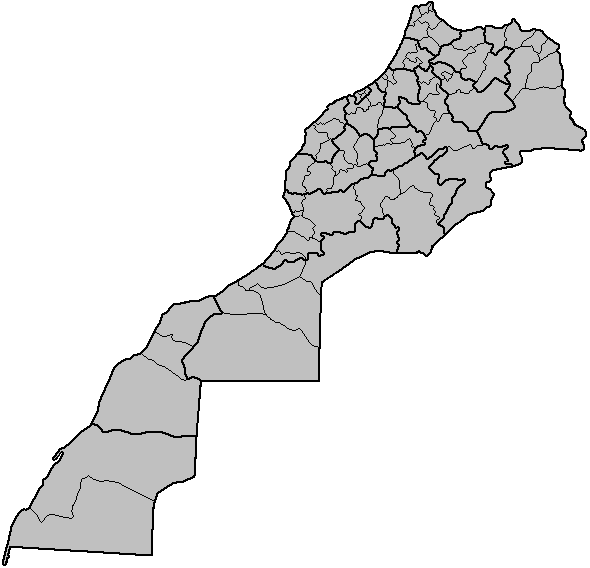 Moroccan regions, provinces and prefectures.